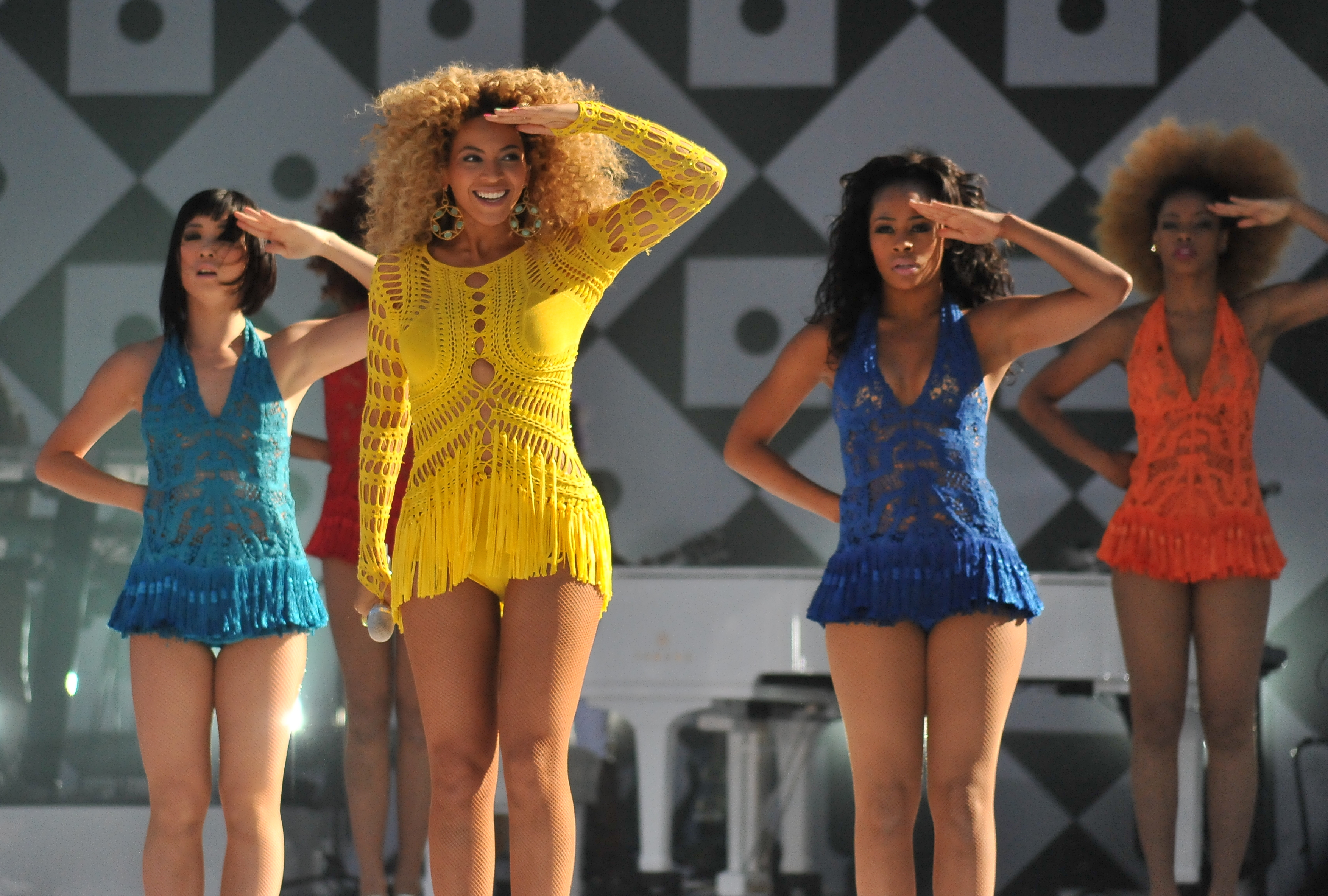 BEYONCE CONCERT IN CENTRAL PARK 2011 / Good Morning America's Summer Concert Series - Central Park, Manhattan NYC - 0701/11